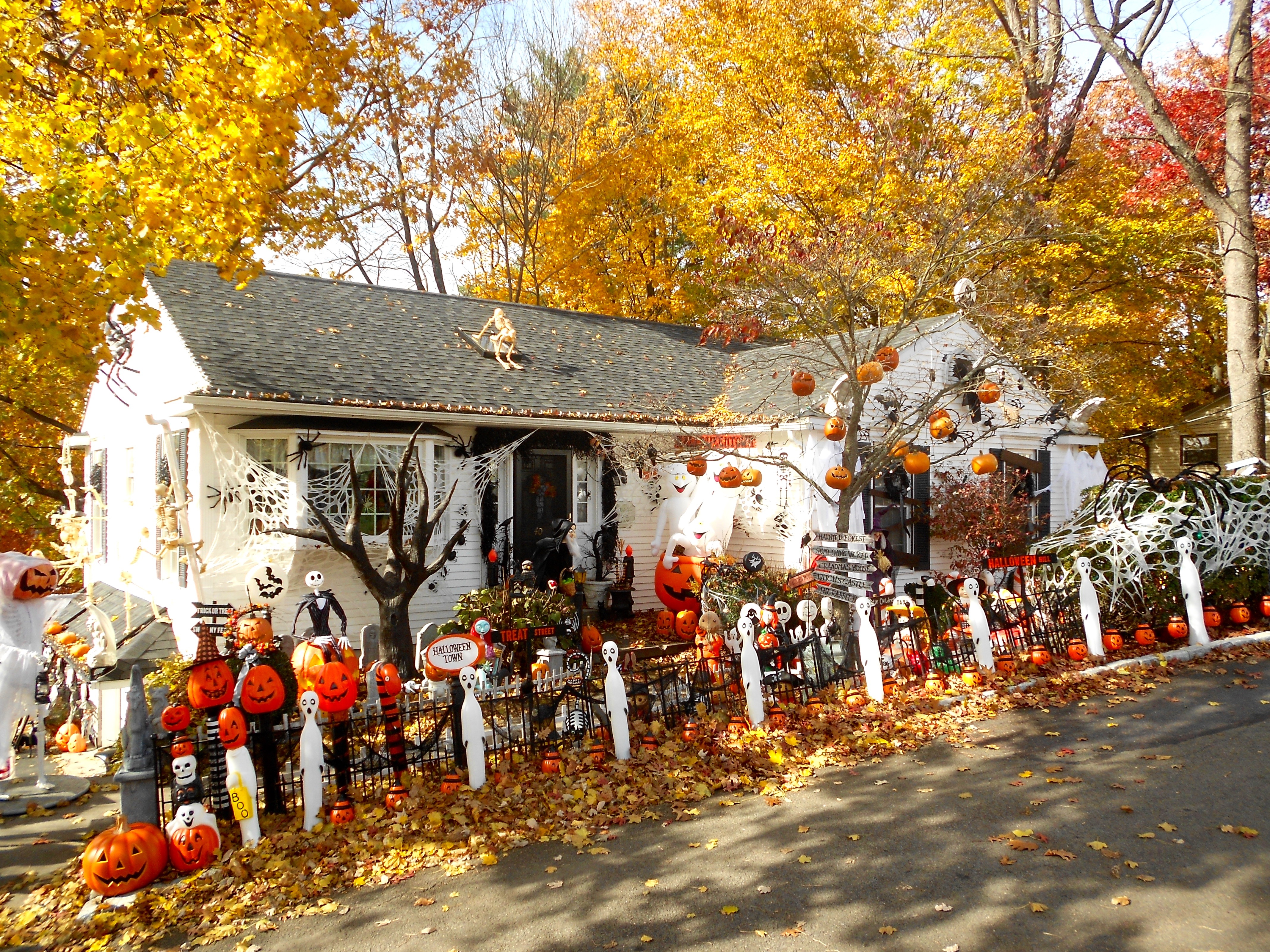 Halloween decoration in Weatherly, Carbon County, Pennsylvania.